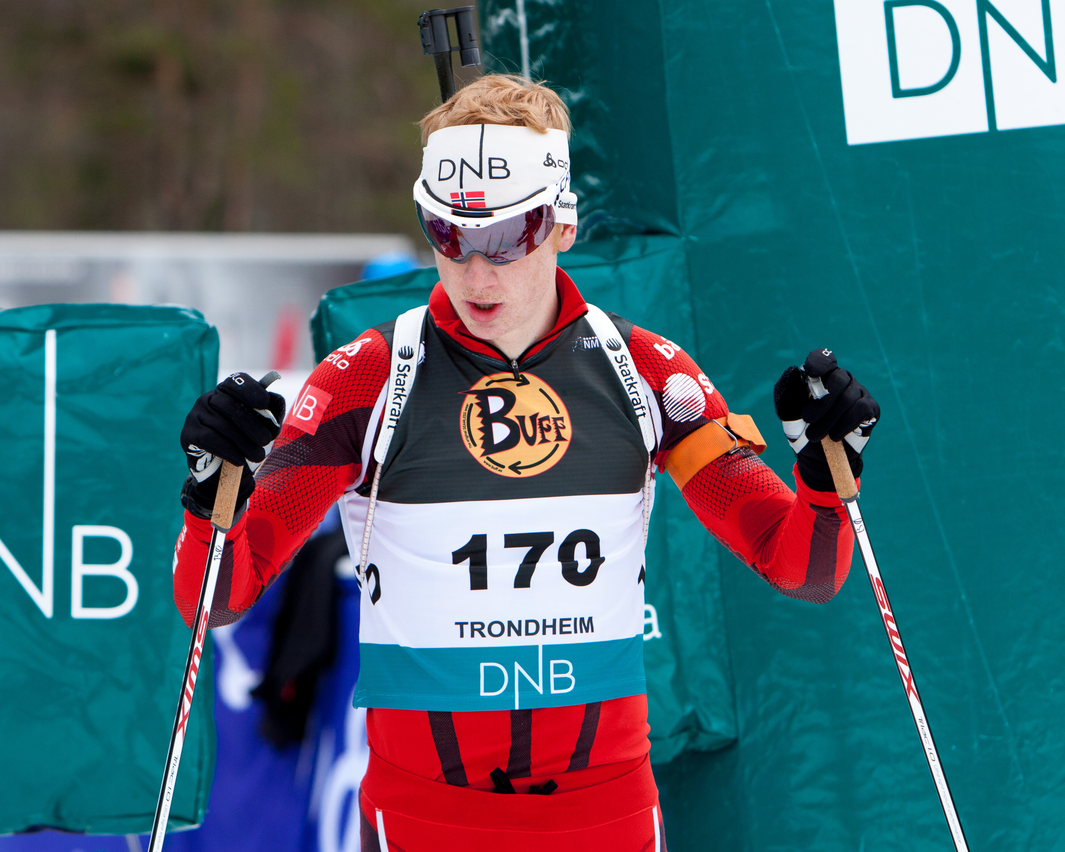 The Norwegian biathlete Johannes Thingnes Bø before the start of the sprint race at the Norwegian biathlon championships 2012 in Trondheim which he would finish in sixth place.